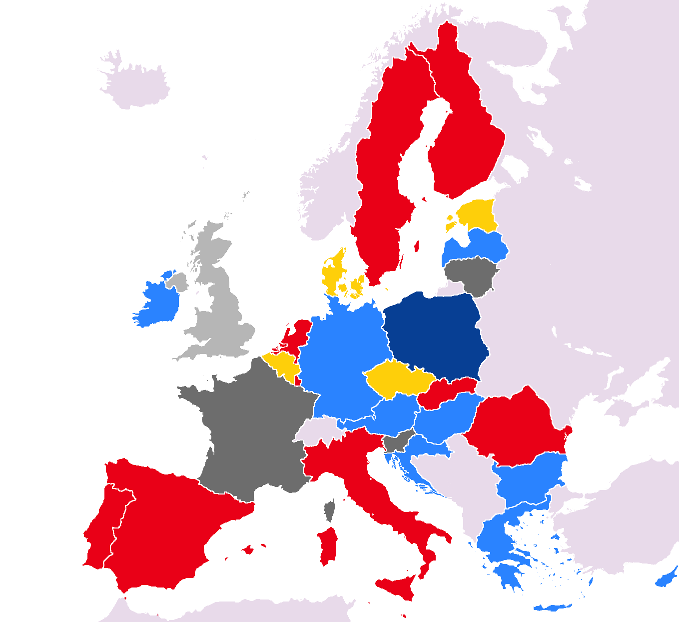 Current EU Commission Composition 16 july 2019